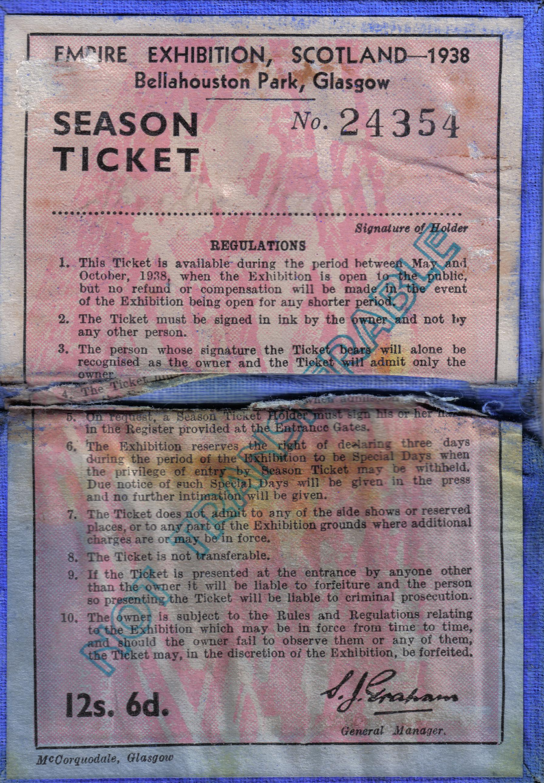 A 1938 Empire Exhibition Season Ticket. Glasgow - Bellahouston Park, Scotland.Rosser 13:28, 14 August 2007 (UTC)